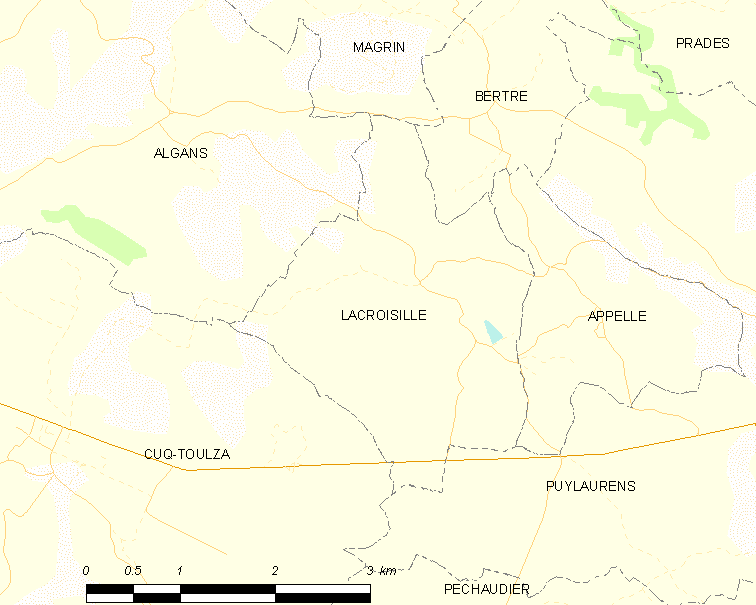 Map of French municipality Lacroisille